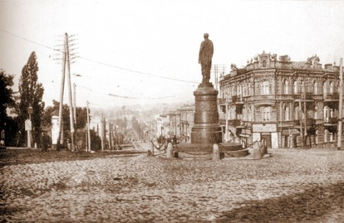 A photo of a monument to Count Oleksiy Bobryns'kiy in old Kyiv